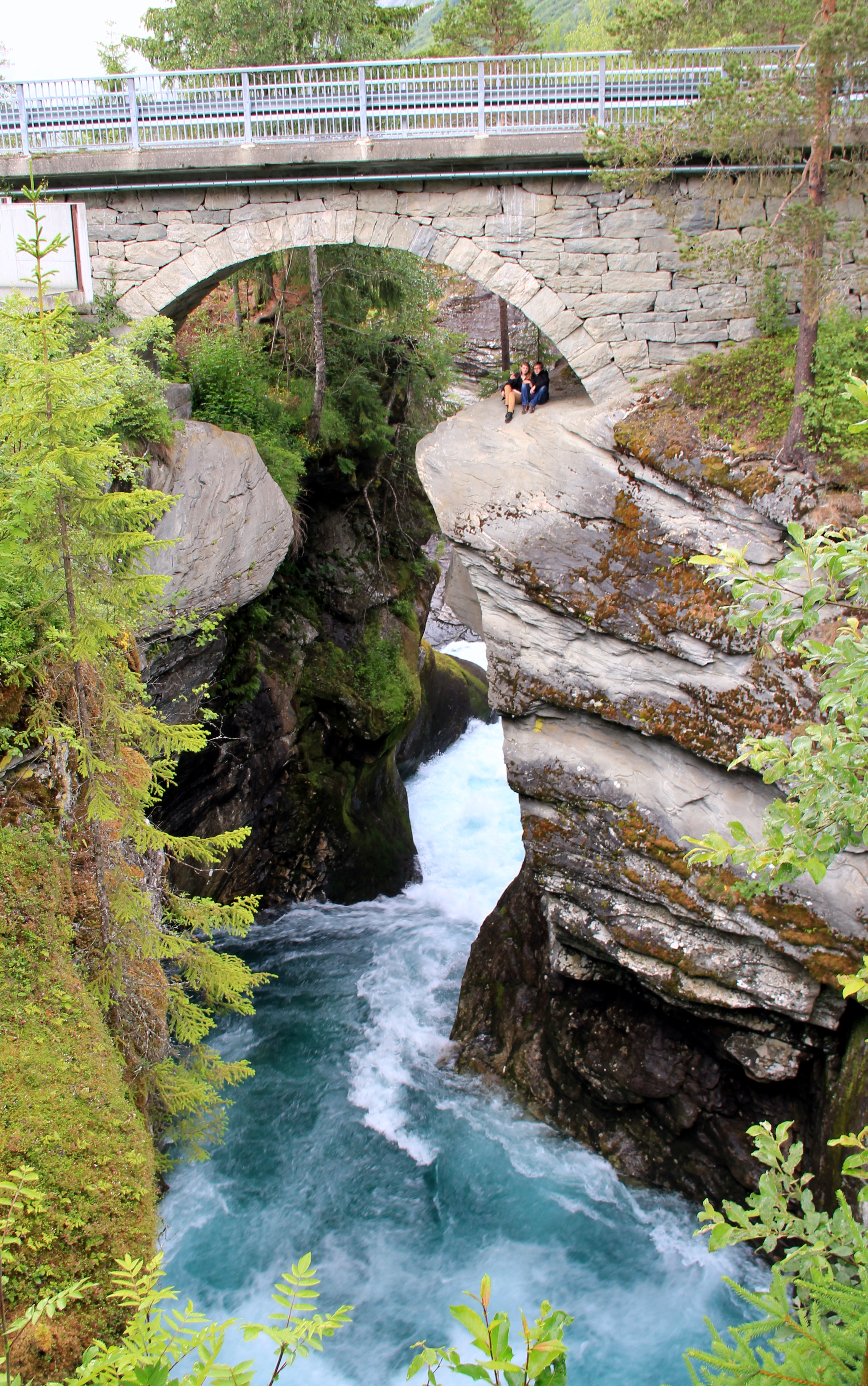 Gudbrandsjuvet, waterfall in Norddal, Norway